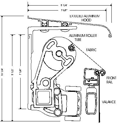 Awning design, from WCA